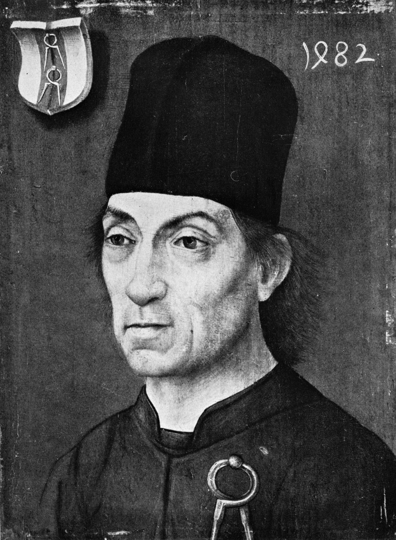 Portrait of Moritz Ensinger (~1430-1482/83); 1482; 31:23 cm